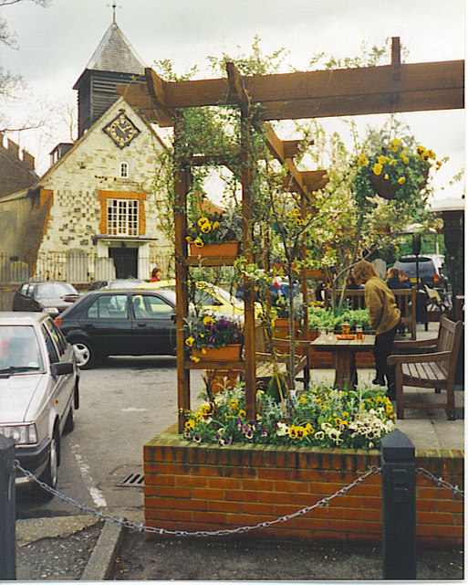 Esher Church. 16th Century church behind the large pub on Esher Green. The stone building has a wooden bell tower. It has some Norman stones built into it.